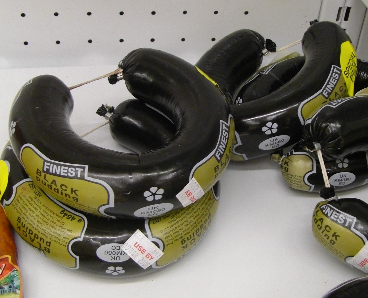 Black Pudding ingredients: water, pork blood, pork fat.